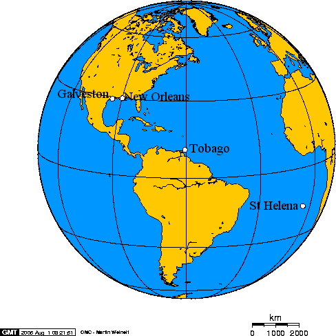 Orthographic projection centred over Tobago - with Galveston - New Orleans - St Helena